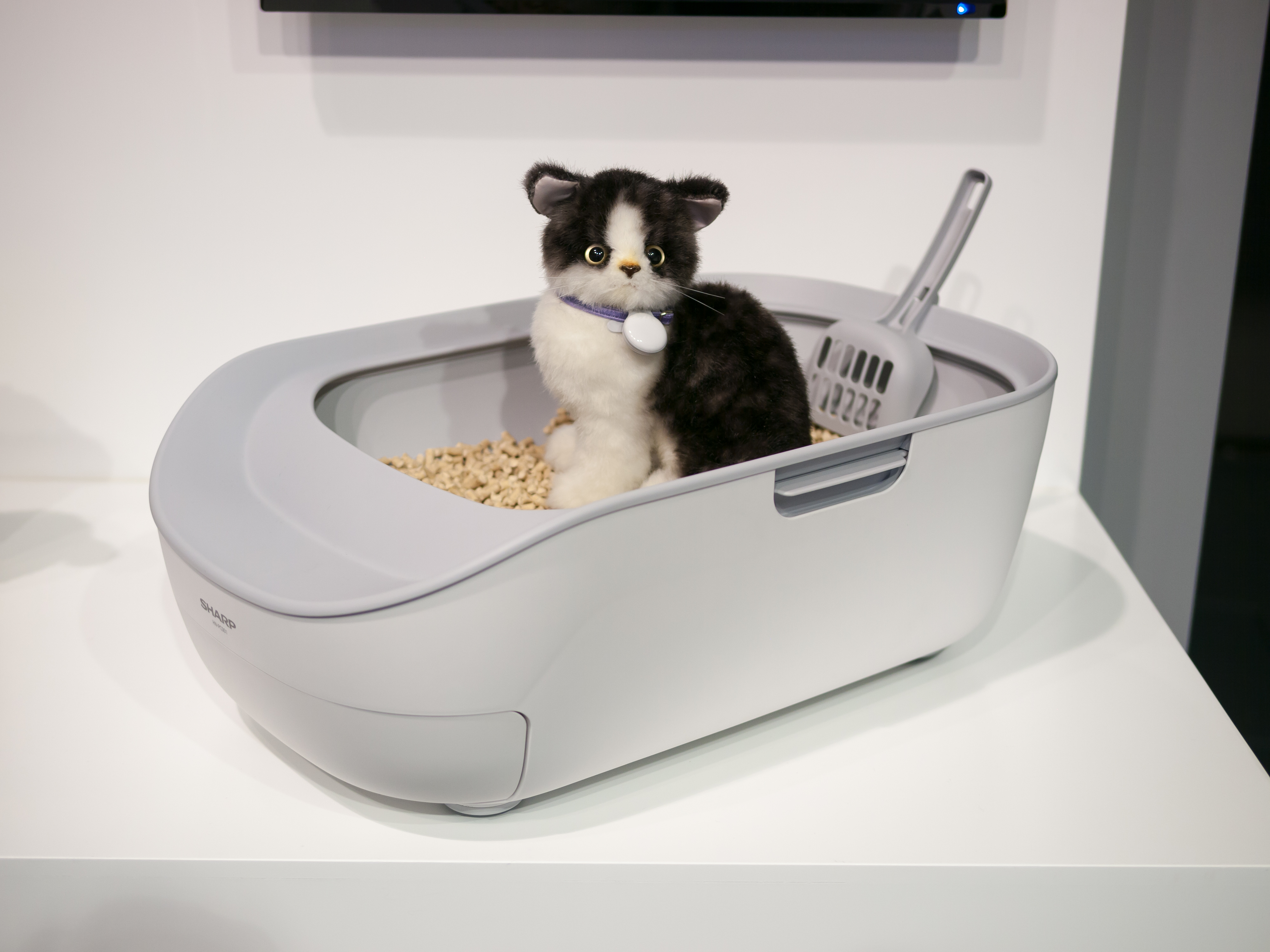 Sharp, Internationale Funkausstellung 2018, Berlin